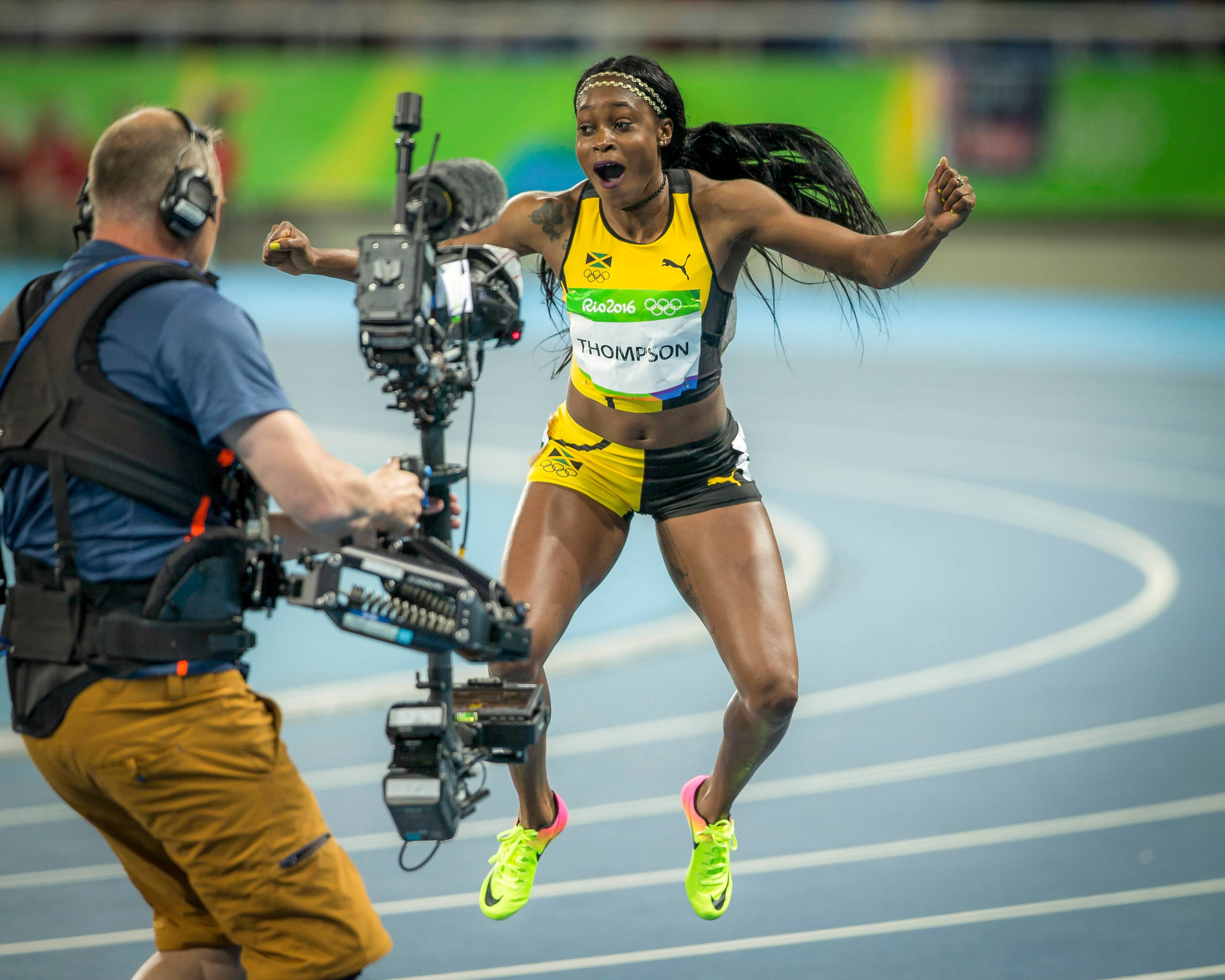 Elaine Thompson after winning gold in the 100 metres at the 2016 Summer Olympics